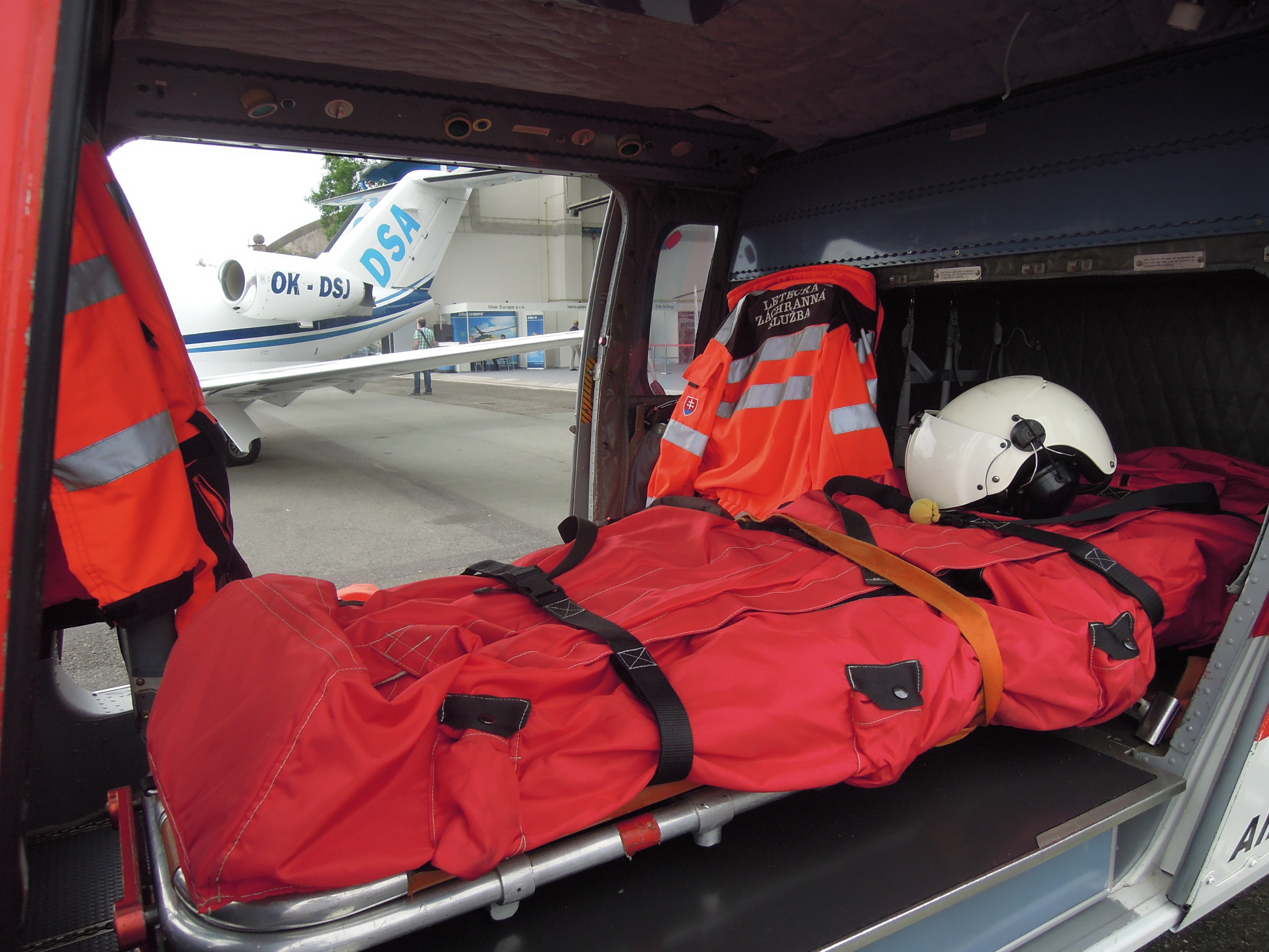 Rescue helicopter AgustaWestland AW109K2 of Air – Transport Europe company, photo was taken during the 2013 European Helicopter Show in Hradec Králové, Czech Republic